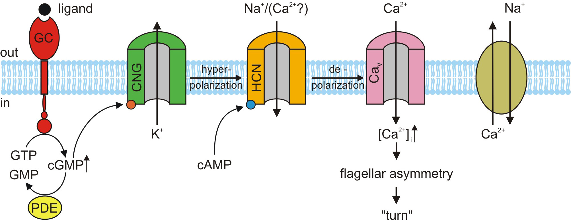 A model of the signal-transduction pathway during chemotaxis of the sea urchin Arbacia punctulata. Binding of a chemoattractant (ligand) to the receptor — a membrane-bound guanylyl cyclase (GC) — activates the synthesis of cGMP from GTP. Cyclic GMP possibly opens cyclic nucleotide-gated (CNG) K+-selective channels, thereby causing hyperpolarization of the membrane. The cGMP signal is terminated by the hydrolysis of cGMP through phosphodiesterase (PDE) activity and inactivation of GC. On hyperpolarization, hyperpolarization-activated and cyclic nucleotide-gated (HCN) channels allow the influx of Na+ that leads to depolarization and thereby causes a rapid Ca2+ entry through voltage-activated Ca2+ channels (Cav), Ca2+ ions interact by unknown mechanisms with the axoneme of the flagellum and cause an increase of the asymmetry of flagellar beat and eventually a turn or bend in the swimming trajectory. Ca2+ is removed from the flagellum by a Na+/Ca2+ exchange mechanism. [Taken from (Kaupp et al., 2006).]